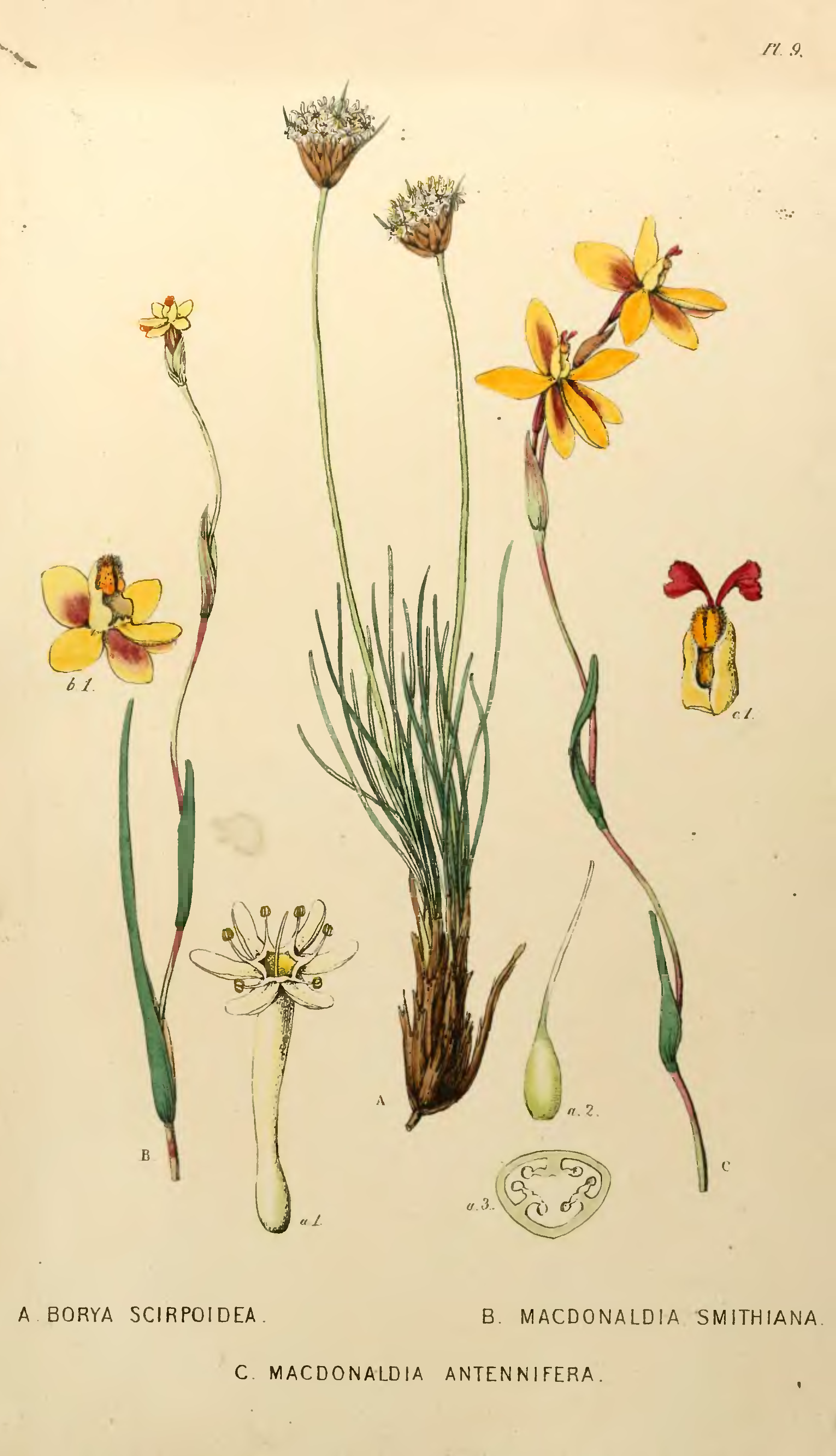 This is a plate from A sketch of the vegetation of the Swan River Colonyby John Lindley. The plants depicted are Borya scirpoidea, Macdonaldia smithiana (now Thelymitra flexuosa) and Macdonaldia antennifera (now Thelymitra antennifera).